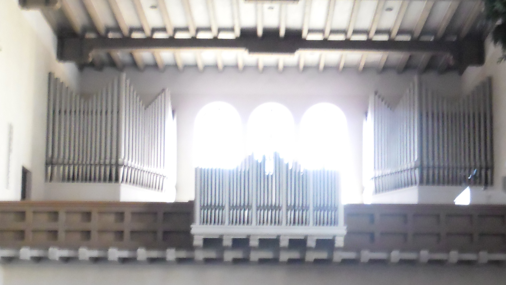 St. Martin's Church in Bruckberg in Middle Franconia, built by Christian Ruck from Nuremberg in 1935